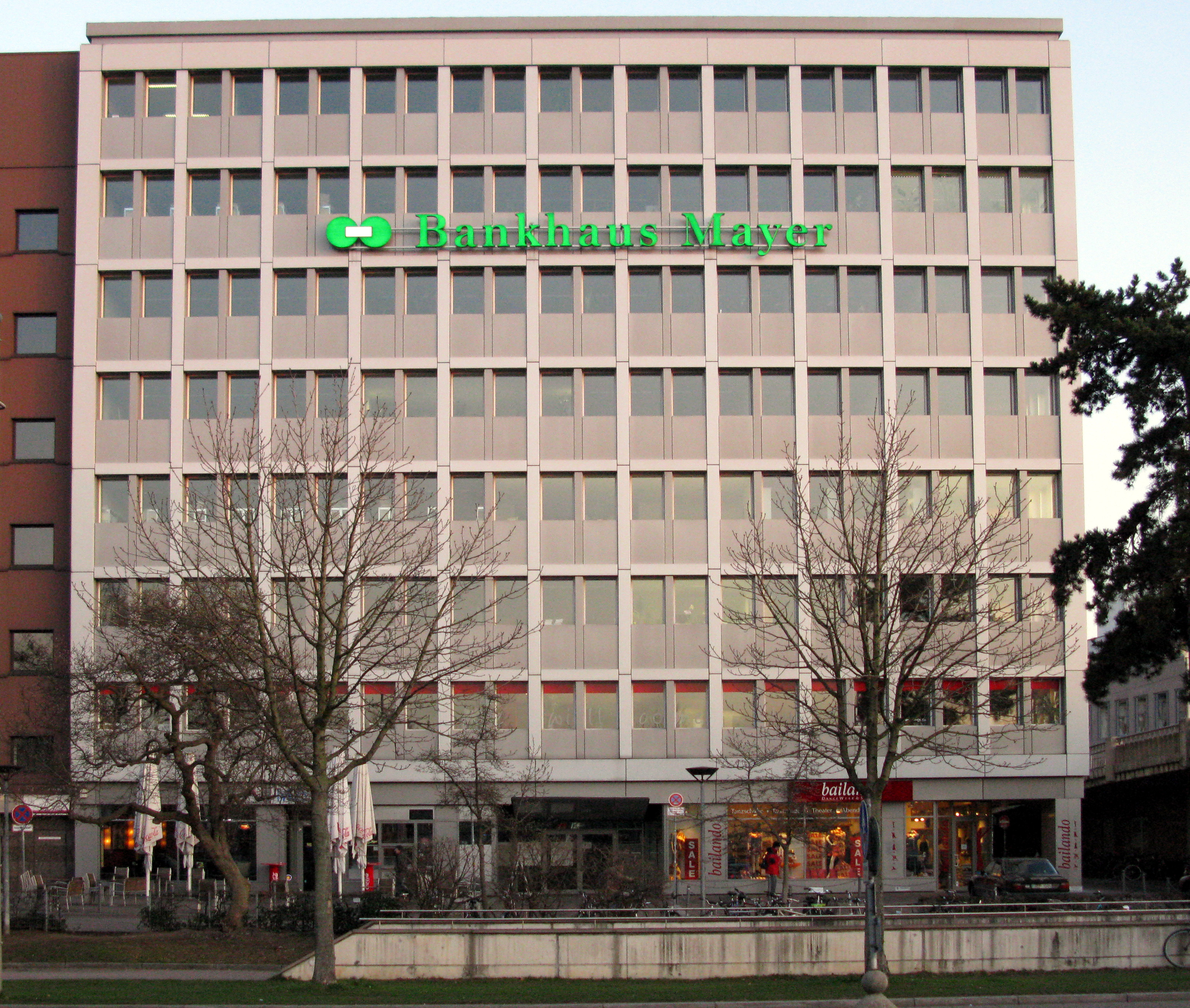 Freiburg, Bismarckallee 2, branch office of the local court